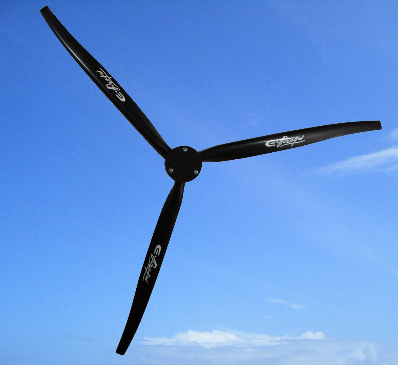 aircraft propeller / carbon 3-bladesground adjustable pitch / high performances and very light